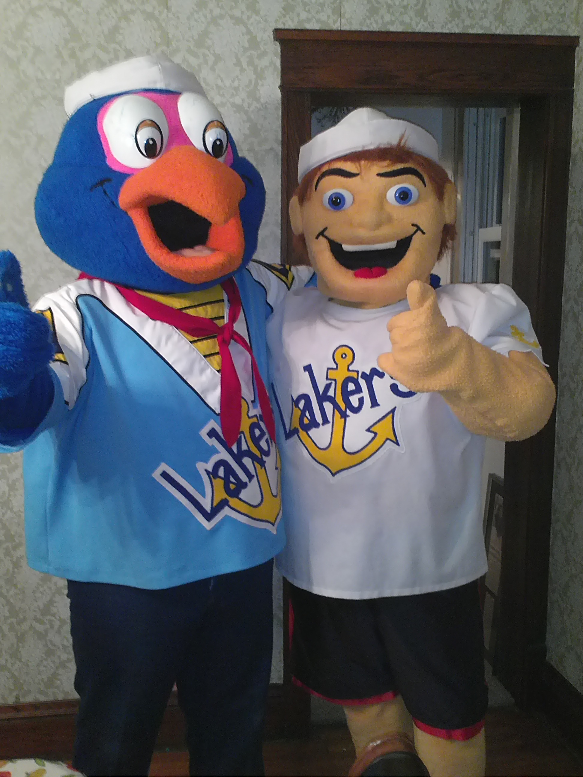 Featured is Seamore the Seaduck (Left) and Foghorn the Sailor (Right)